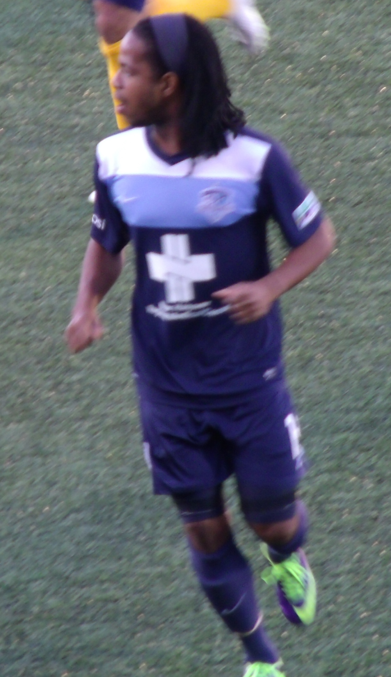 Pittsburgh Riverhounds vs. Wilmington Hammerheads 4/12/14